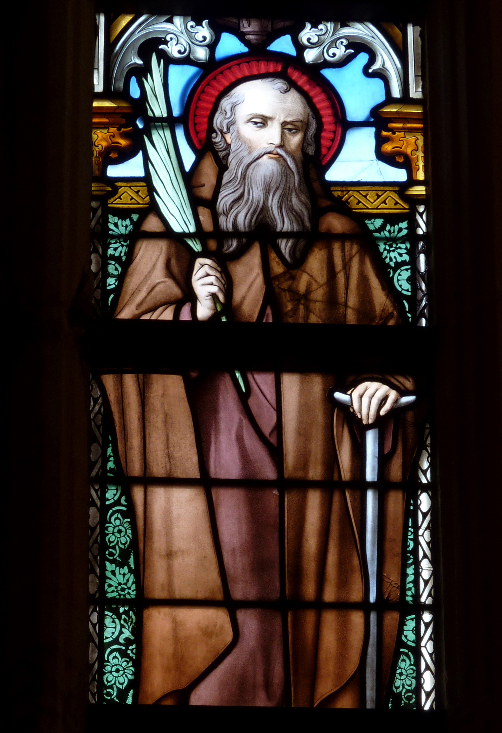 Stained glass image of Saint Helier, Liebfrauenbasilika, Tongeren (cropped)